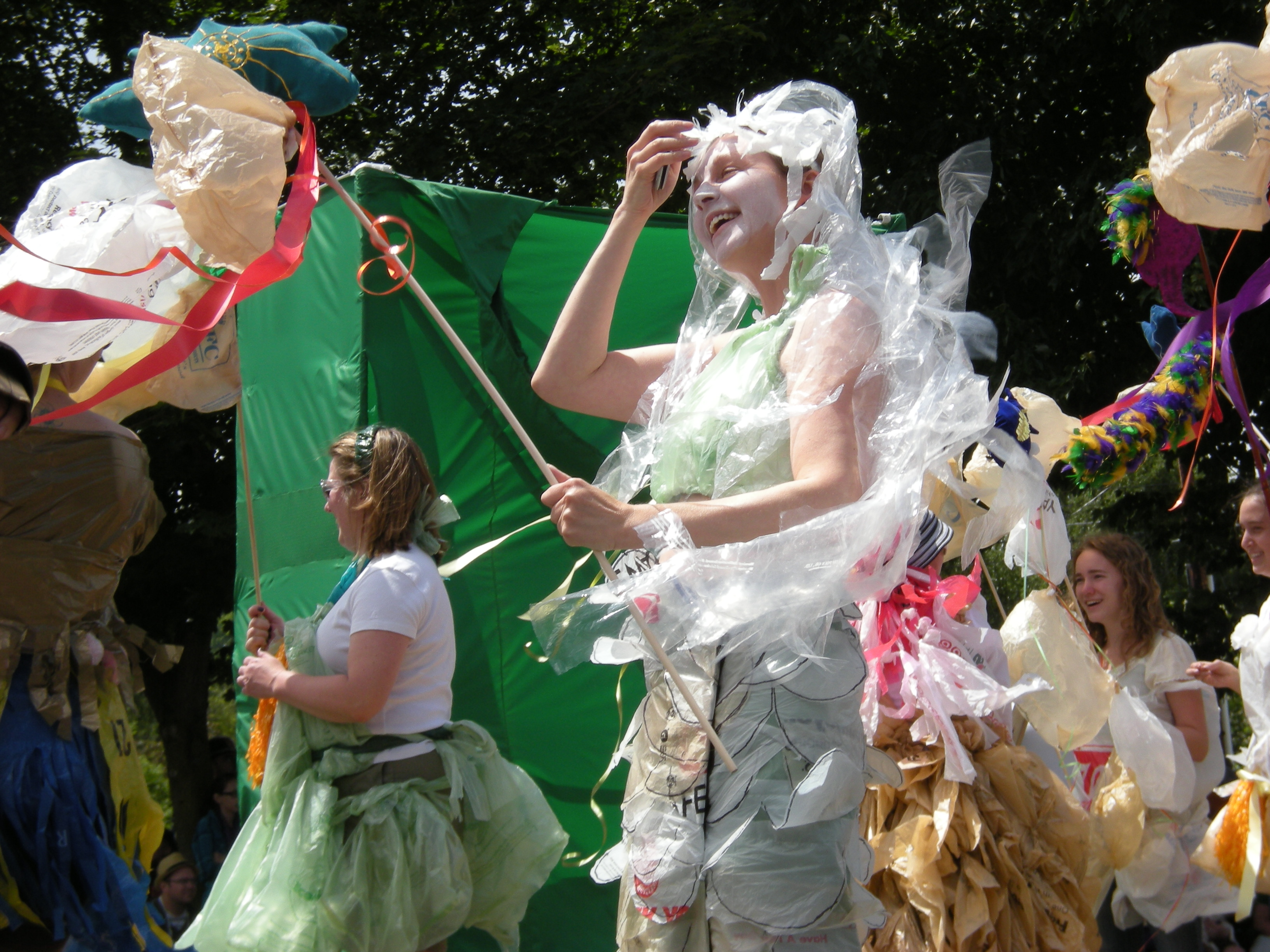 Recycling contingent, Summer Solstice Parade, Fremont, Seattle, Washington.